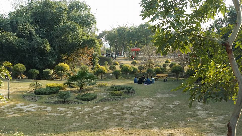 Ayub national park garden